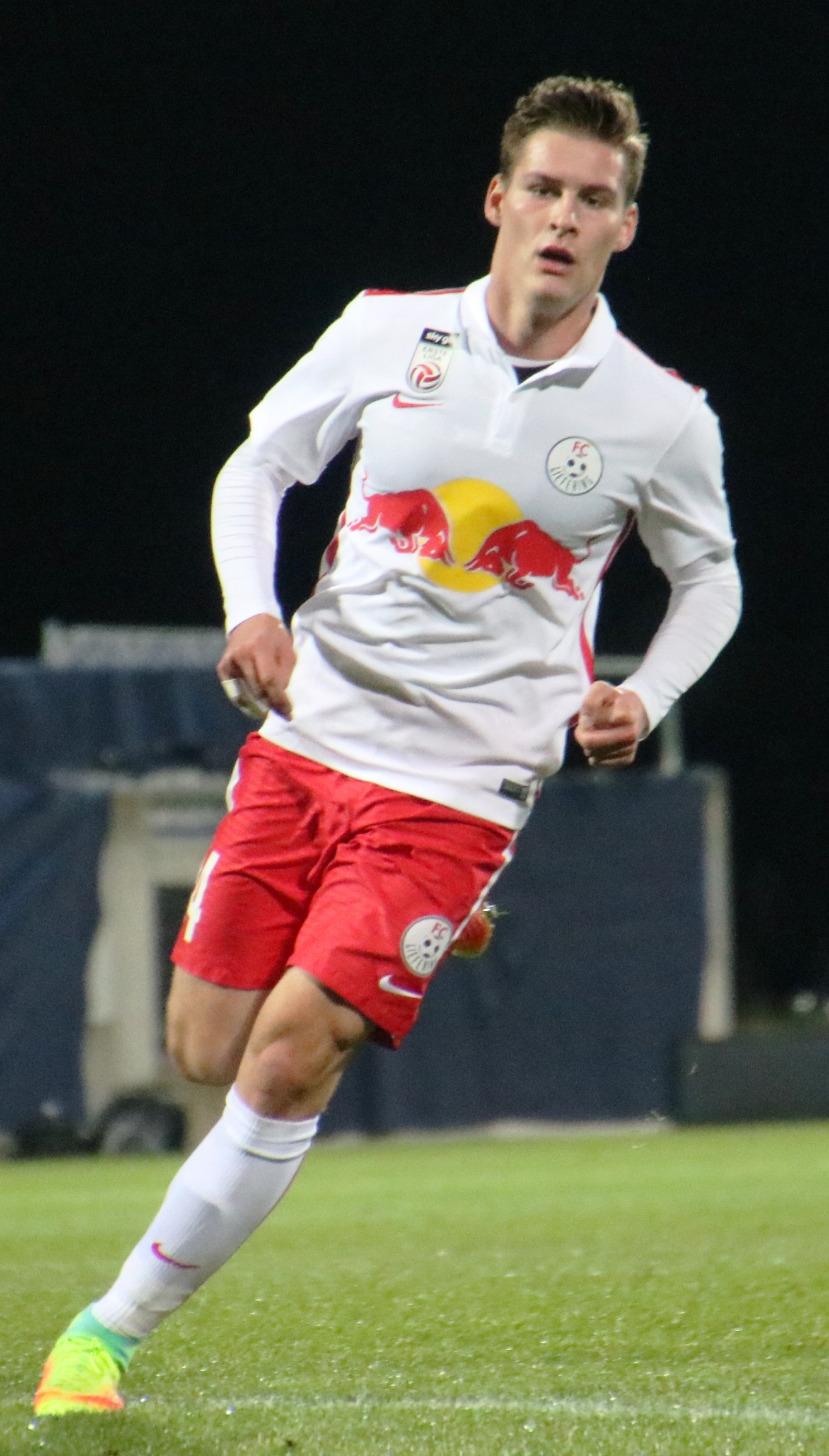 league match Austria 2nd league